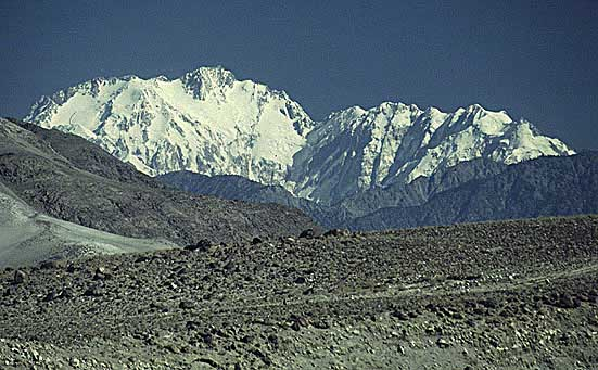 Nanga Parbat: Diamir Face with summit and Mazeno-Wall (right)